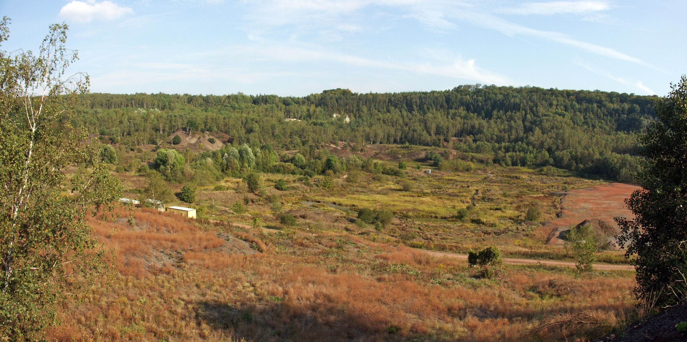 Description: Grube Messel south of Frankfurt am Main, Germany. Source: taken by fafner